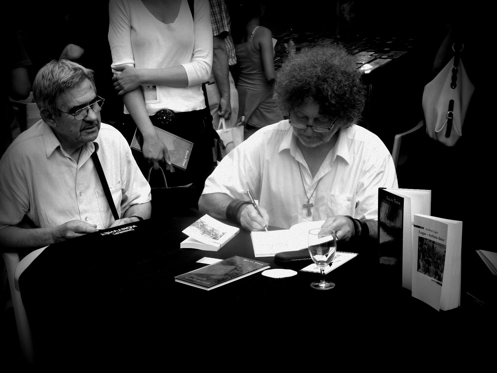 Tibor Zalán Hungarian Writer (right), with Péter Kovács Hungarian graphic designer, painter (left) - 2012 on the 83. Festive Book Fair & 11. Child Book-Days